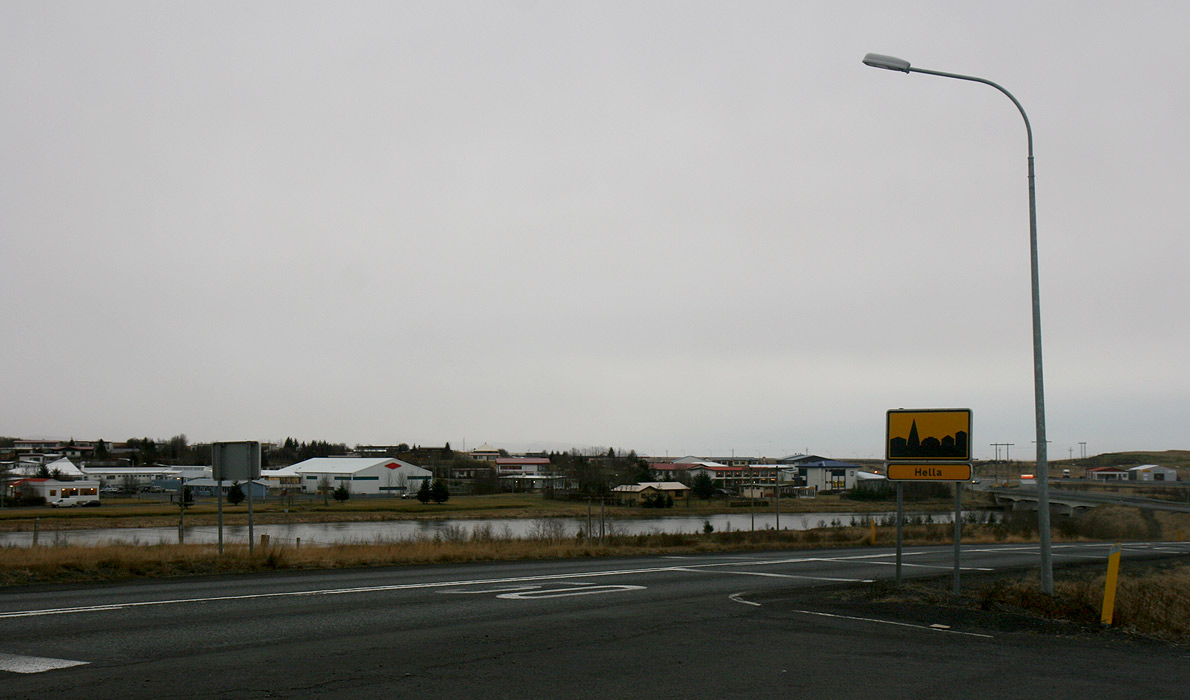 Town of Hella on the ringroad, November 25 12:20 Iceland, November 2007 Photo by me user:debivort (or my friend who has given me permission to freely license our photos from Iceland)